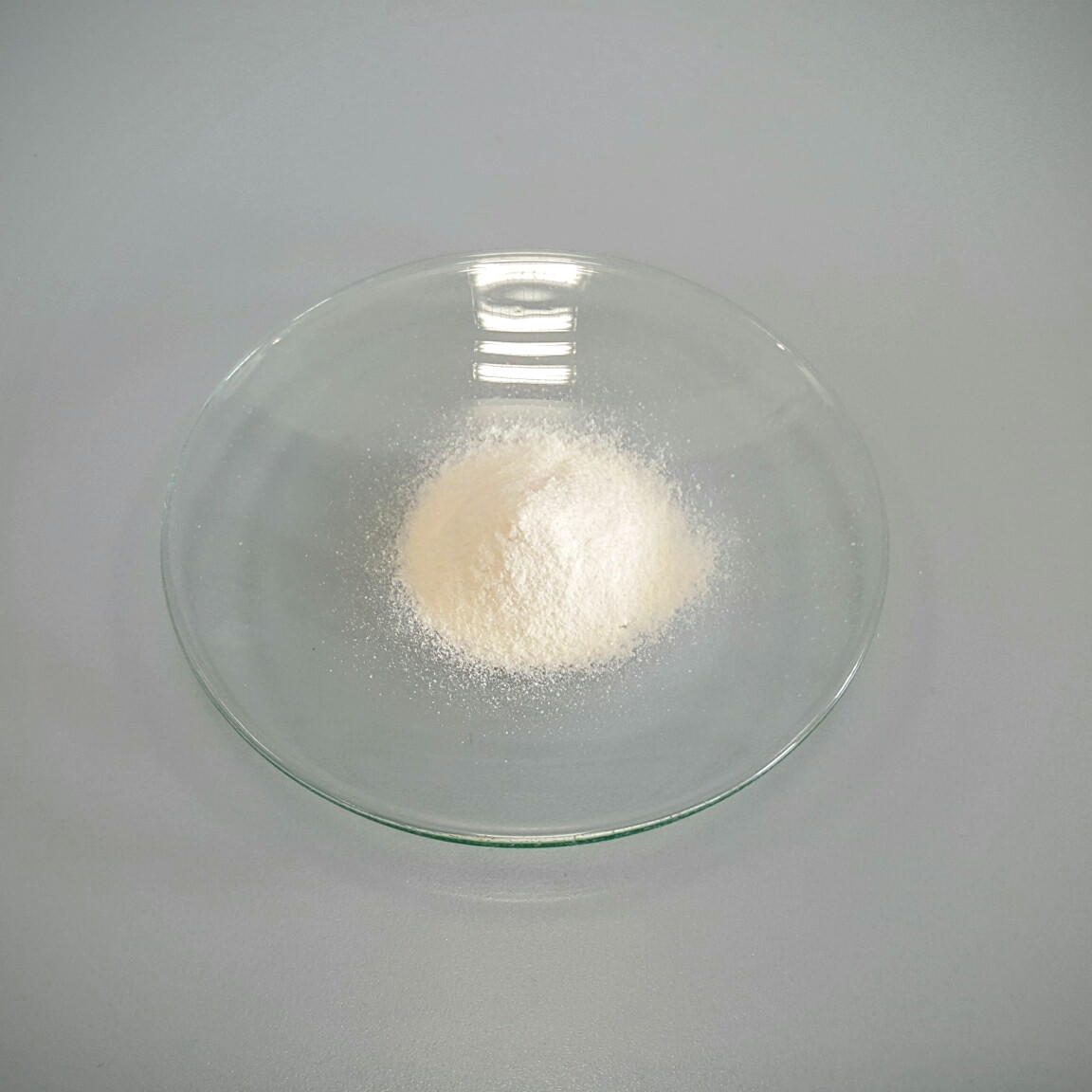 KIO3 Potassium iodate